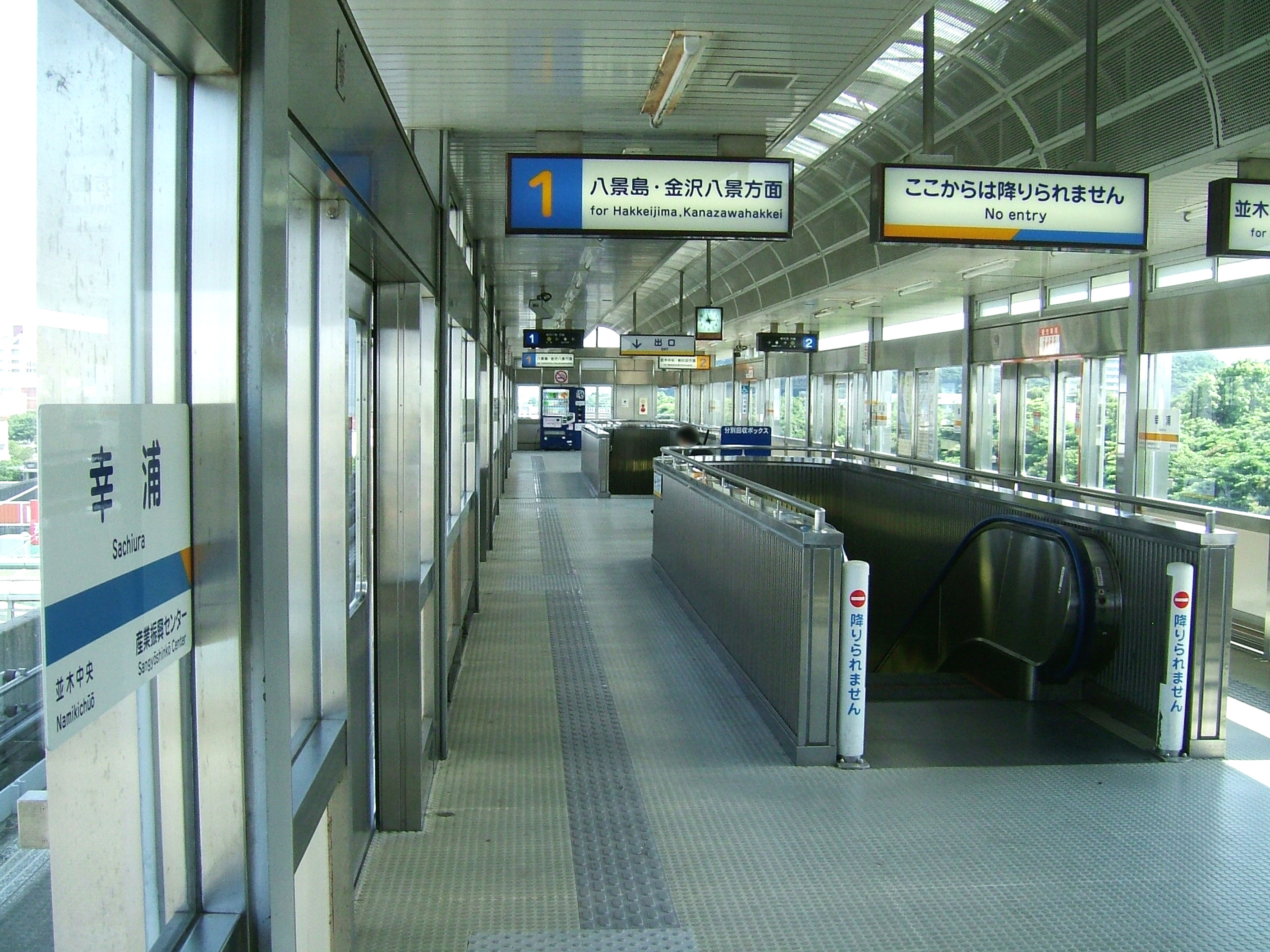 Sachiura Station platform (Kanazawa Seaside Line)